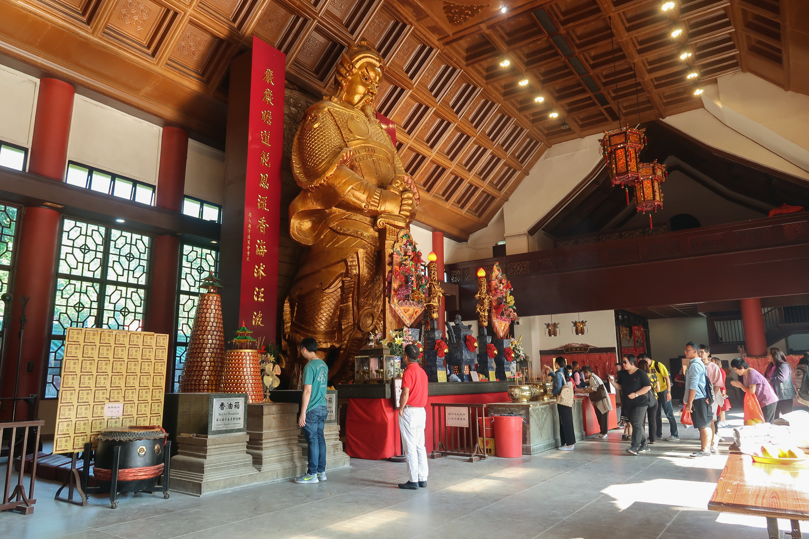 Che Kung Temple Interior